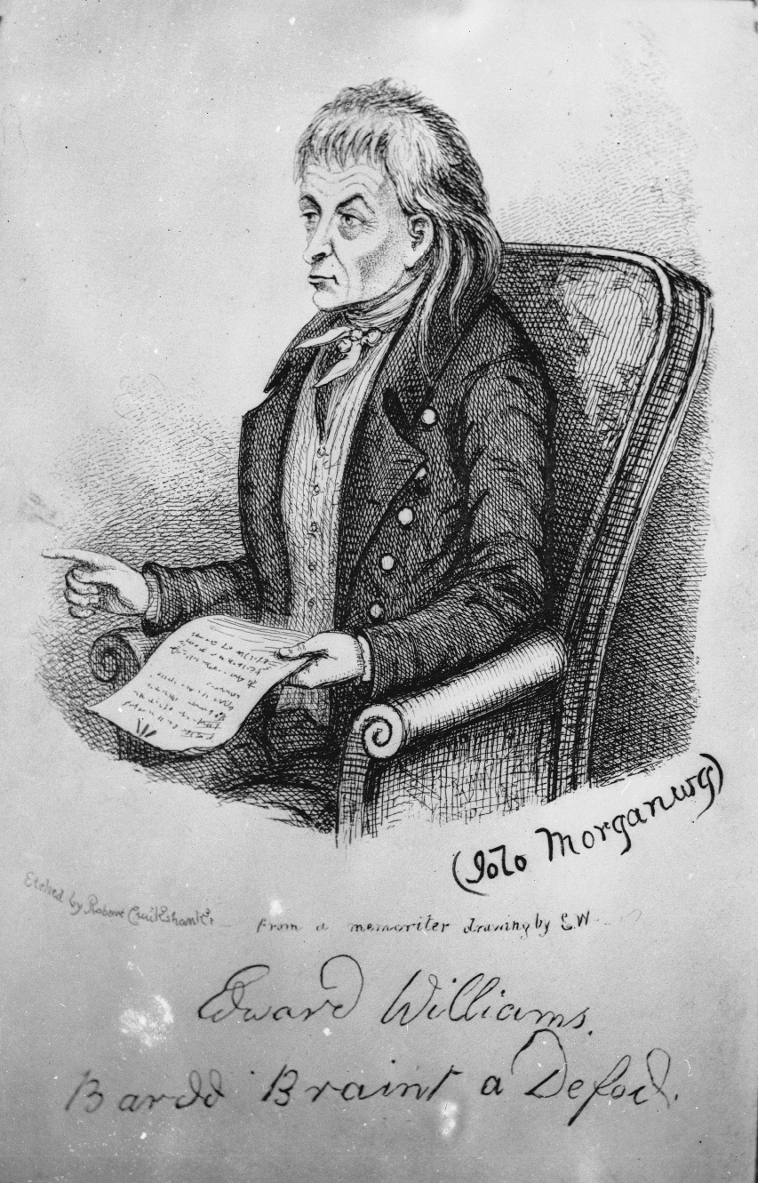 1 negative : glass, wet collodion, b&w ; 11 x 16.5 cm.